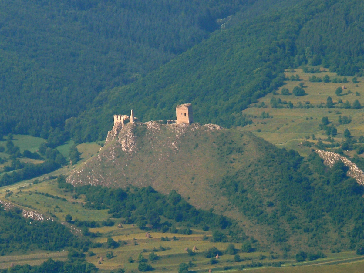 Castle of Colteşti, Transylvania.